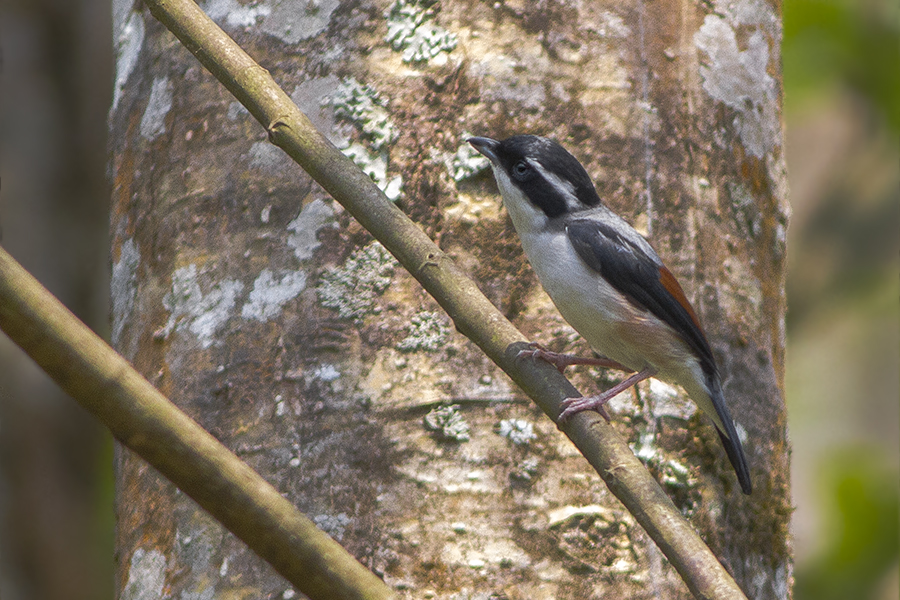 The species Himalayan Shrike-babbler had been photographed from Neora Valley National Park in West Bengal, India on 14.04.2016.